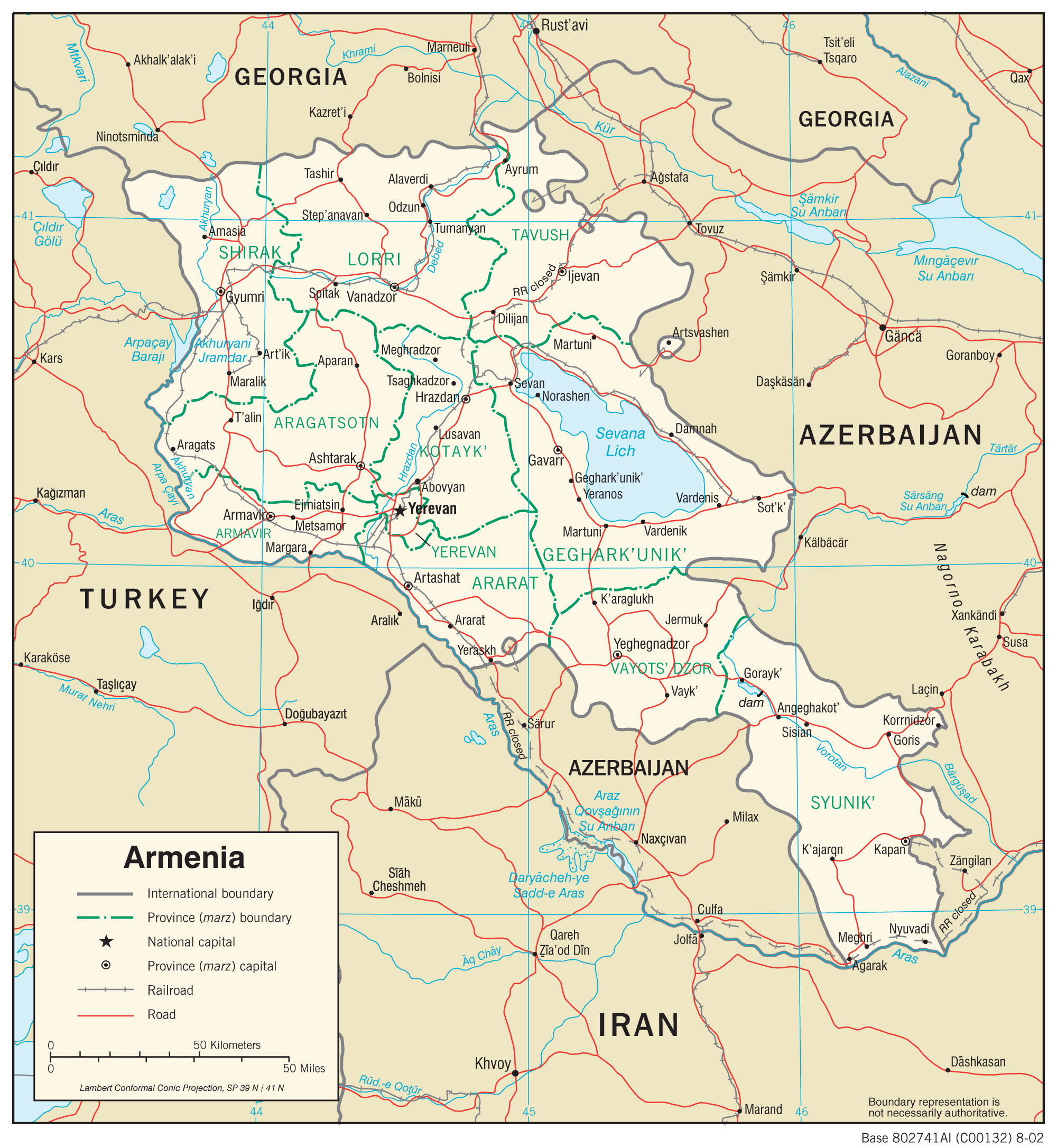 Transport system in Armenia, 2002.